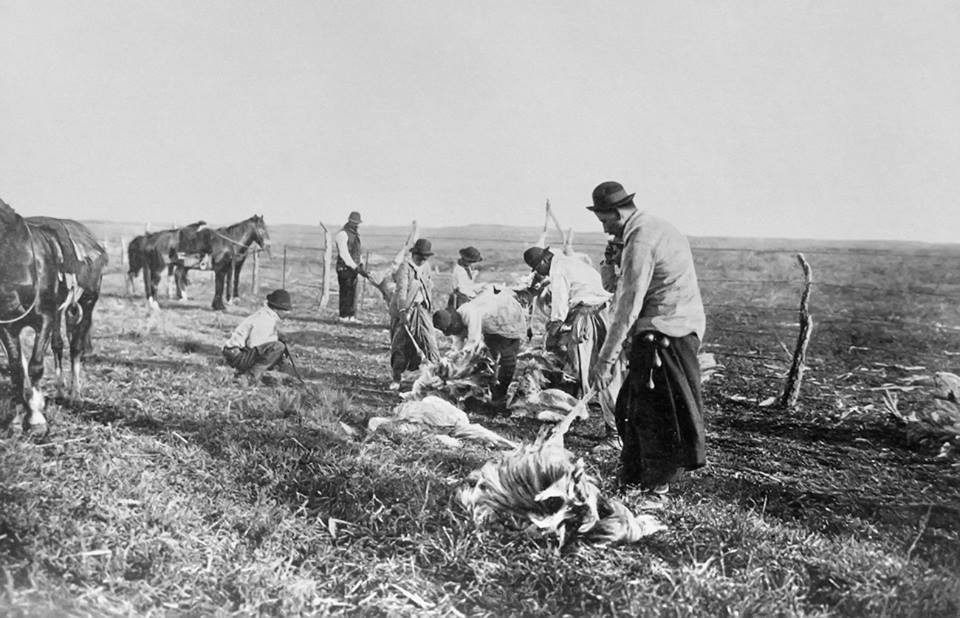 A group of gauchos hunting emus with bolas in La Pampa, Argentina.